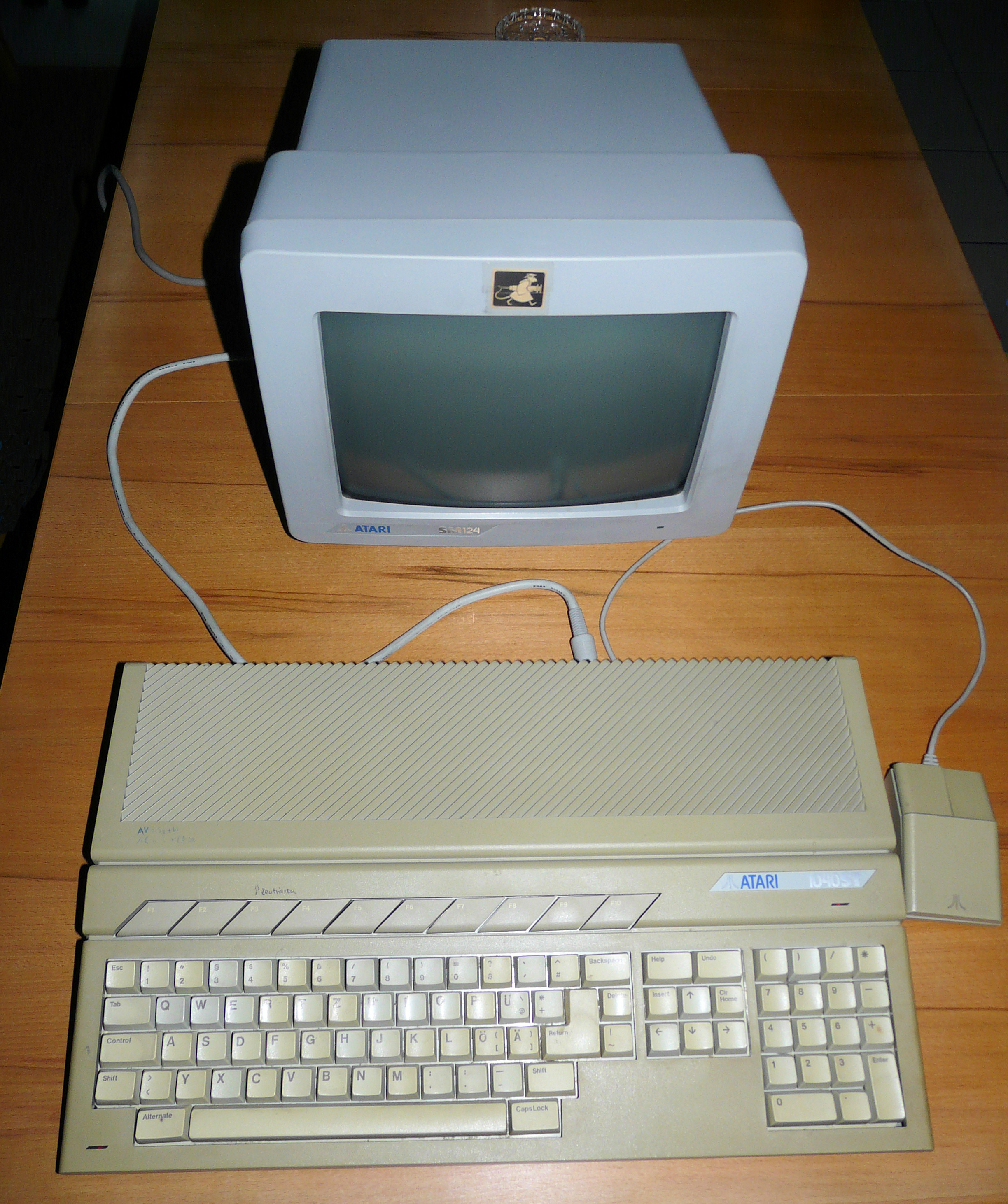 Atari 1040 STF with SM124 monochrome monitor (from 1987)